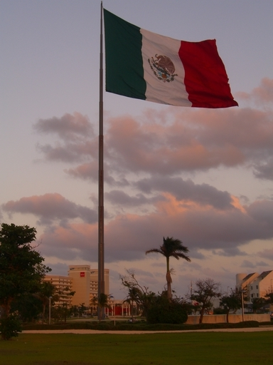 Giant Mexican flat at the hotel zone of Cancún, Q. Roo